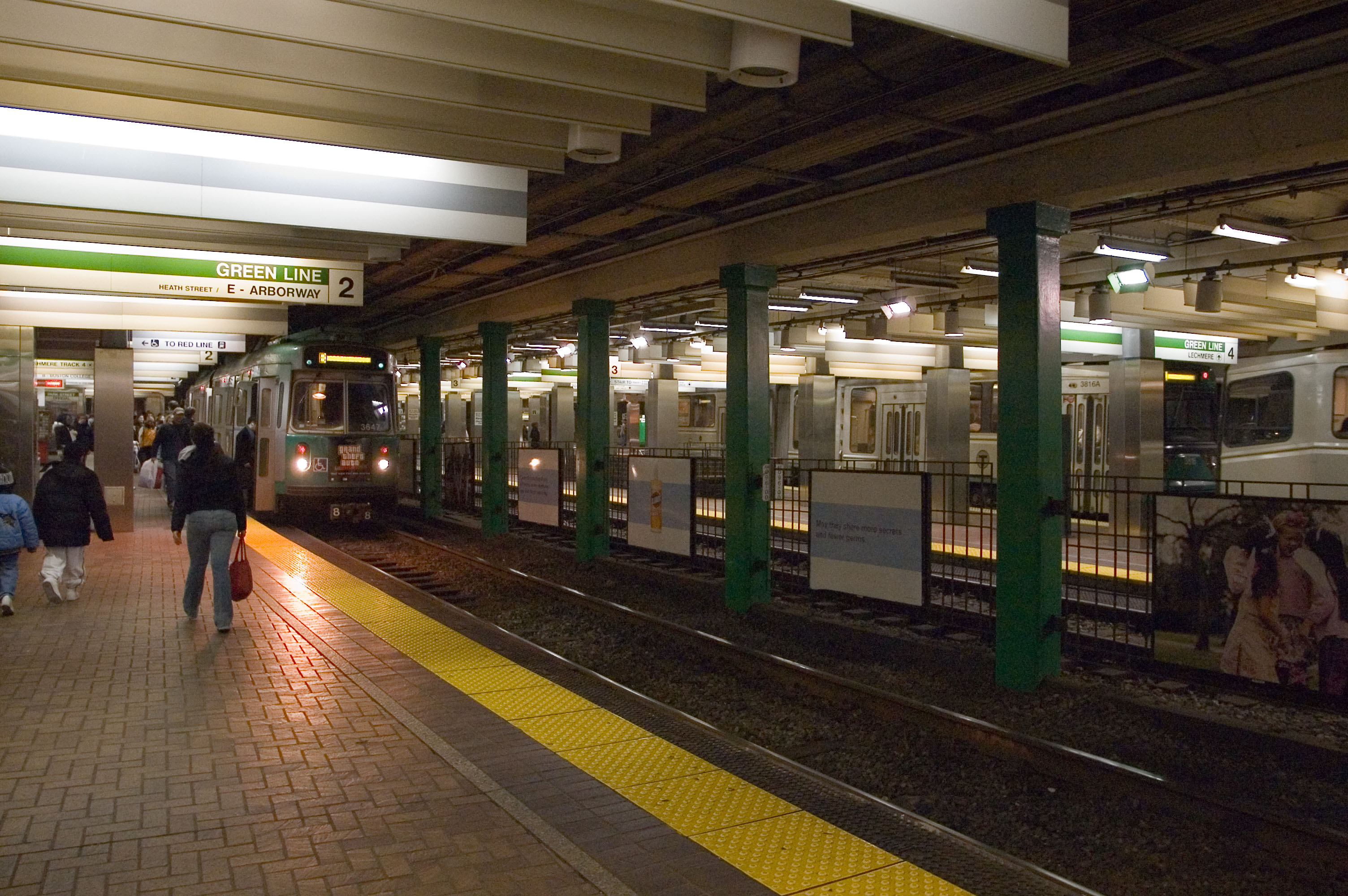 Two Green Line trains at Park Street. At left is a two-car "B" Branch train to Boston College; at right is an inbound train headed to Government Center.